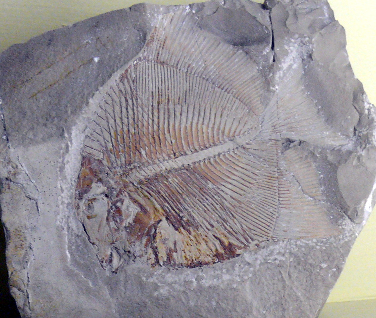 Mesodon macropterus (jr syn: Gyronchus macropterus) from Solhofen, Germany